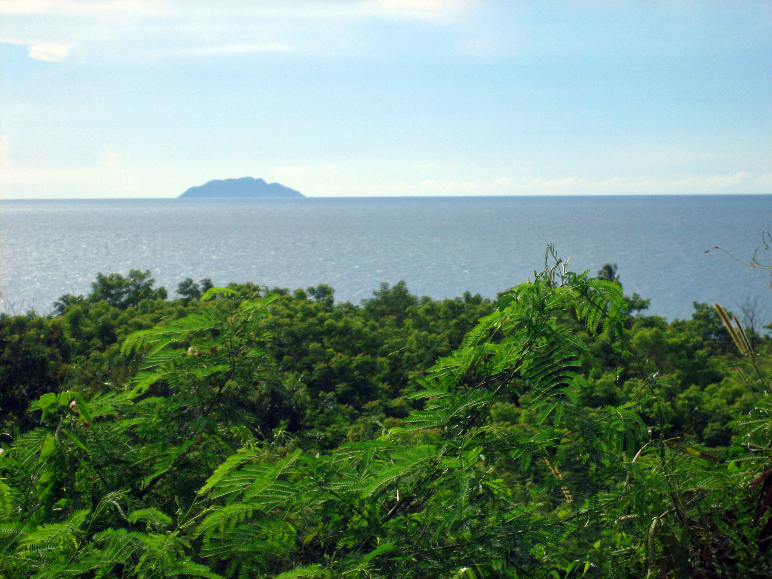 Desecheo Island as seen from Rincón, Puerto Rico